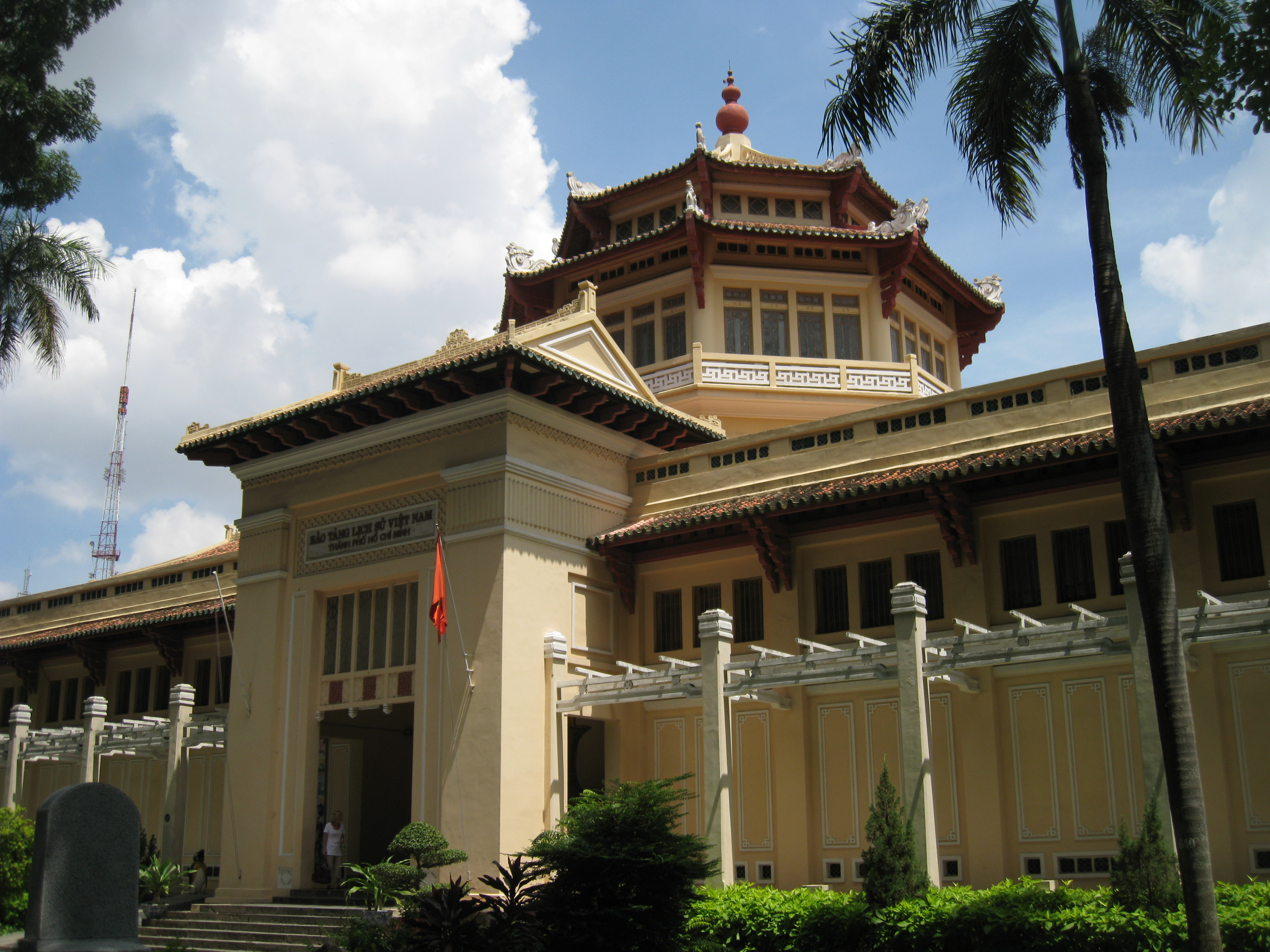 Vietnam History Museum HCMC.